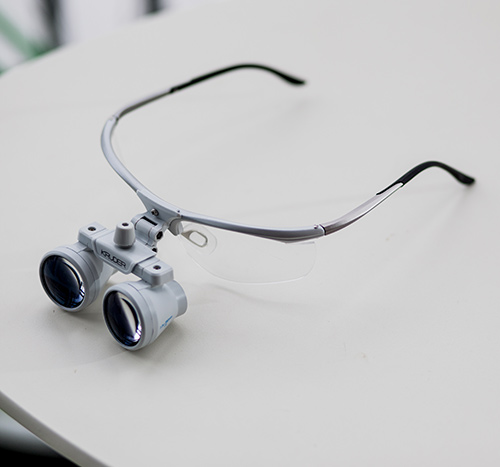 Loupes on lightframe with easily adjusted angles. Galilean type of glasses